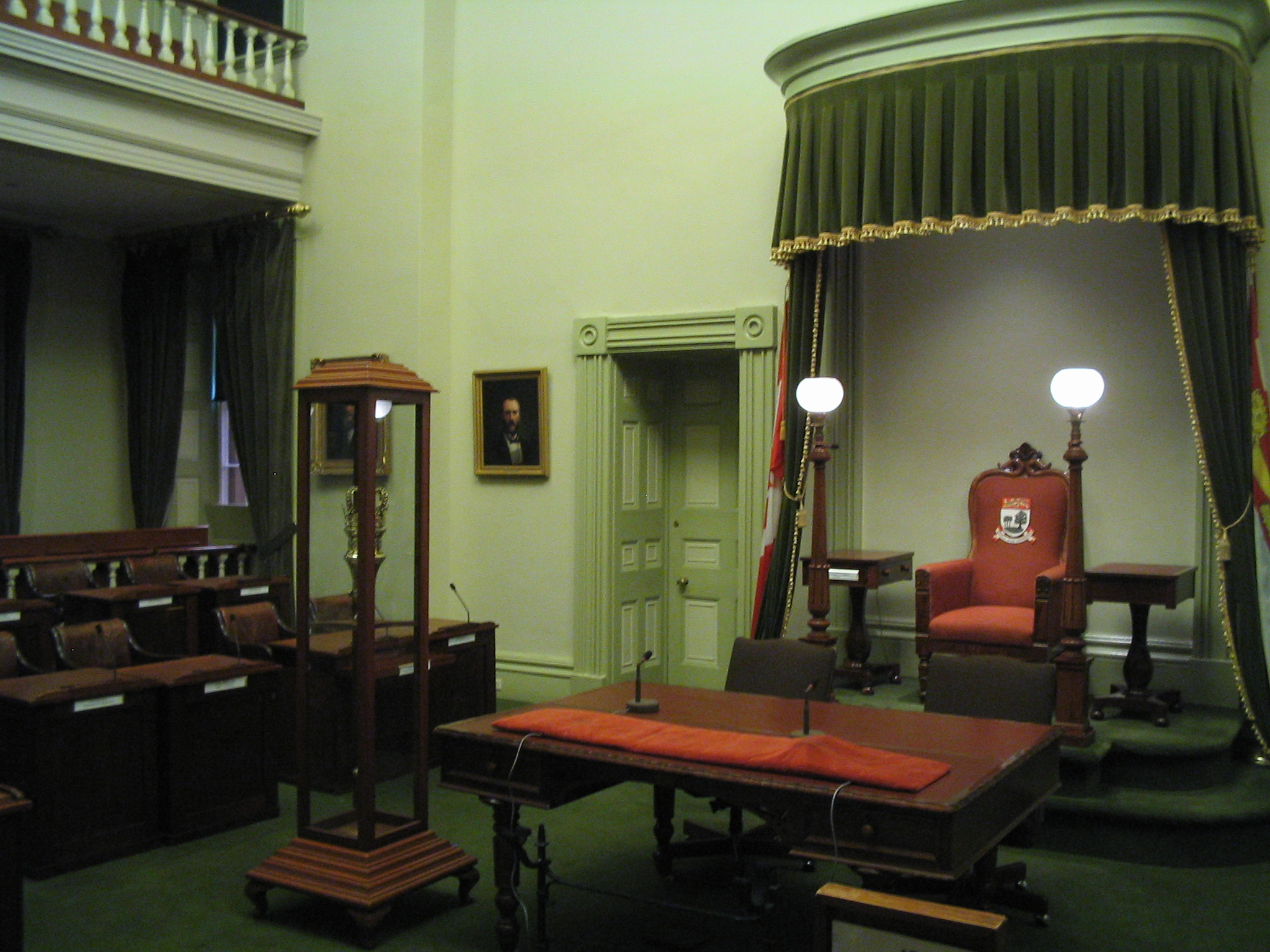 The next day (Saturday) Catherine and I were going to head out to Greenwich to see the sand dunes and walking trails, but it started raining before we even got to St. Peters, so we decided to roll into Charlottetown . After perusing some shops we found ourselves in Province House almost by accident. You can see here the legislative chamber of Prince Edward Island, where the legislative assembly meets.